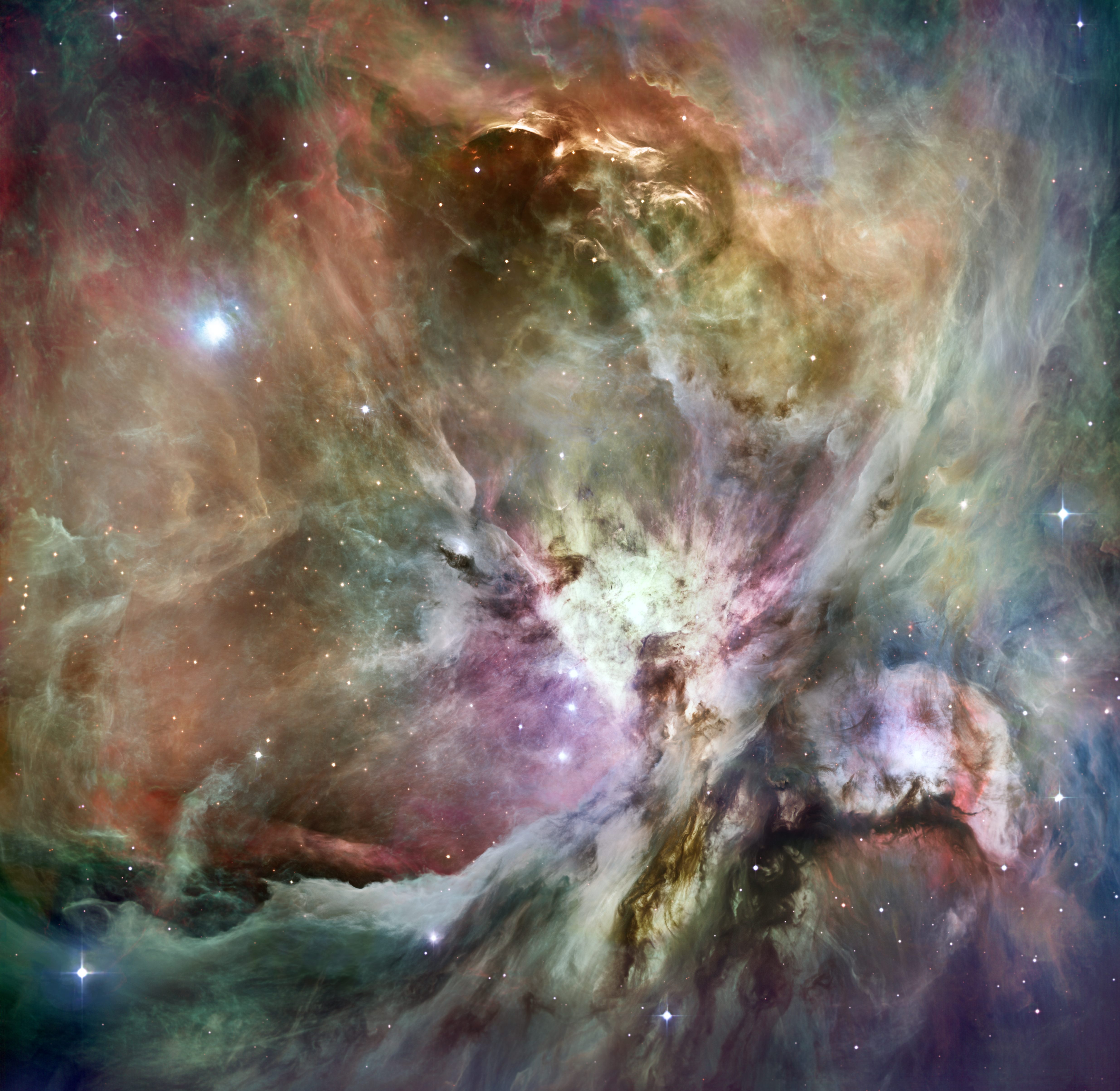 HST Orion nebula image composited with a Spitzer image for something a little different.